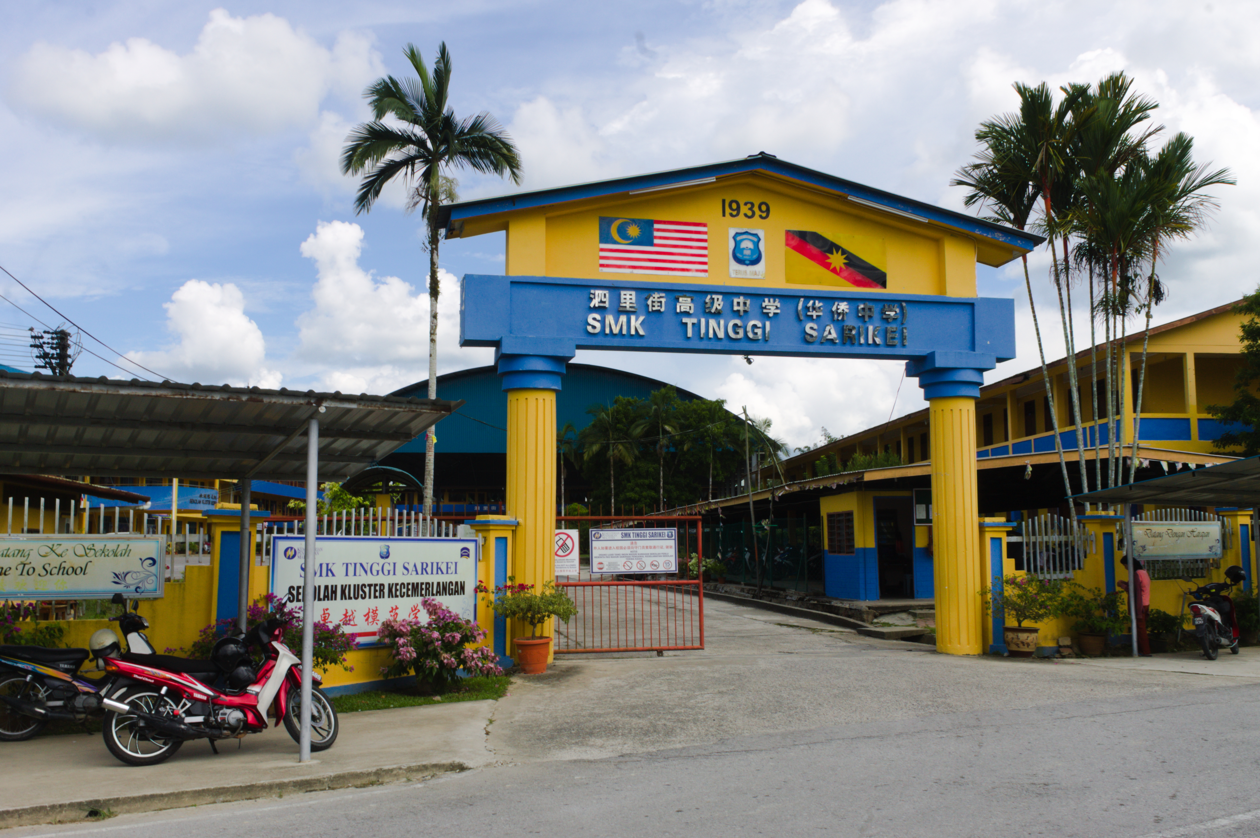 SMK Tinggi Sarikei entrance